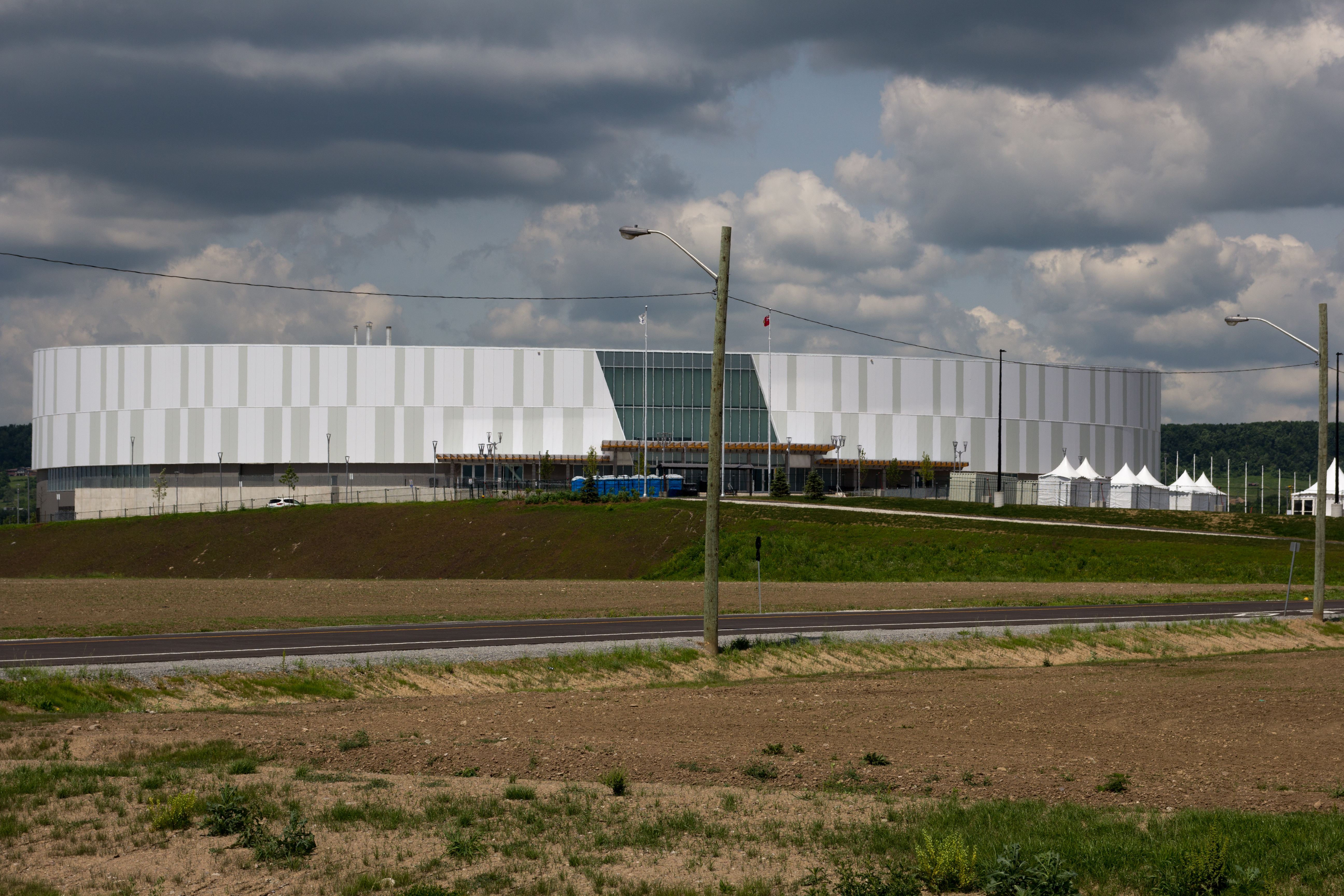 Mattamy National Cycling Centre being prepared for the 2015 Pan Am Games